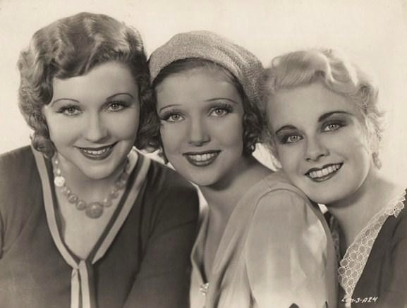 L. to R. : Joyce Compton, Loretta Young, and Joan Marsh in Three Girls Lost (1931) - publicity still (cropped : see source)